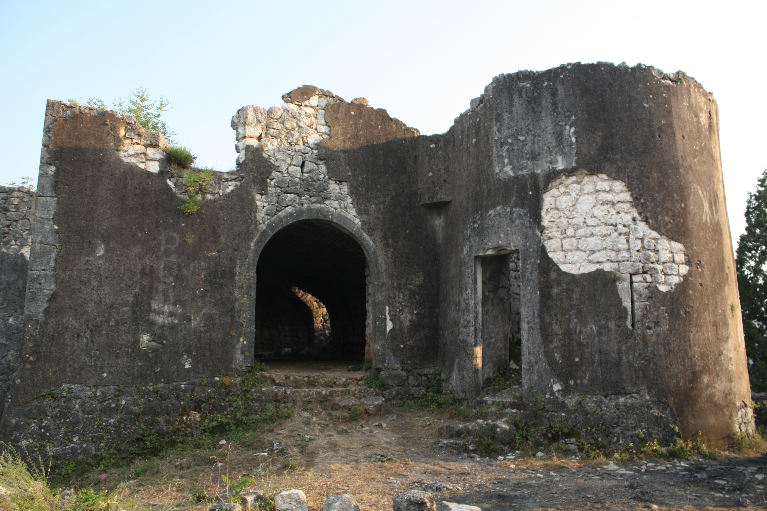 Besac castle above Virpazar, Montenegro